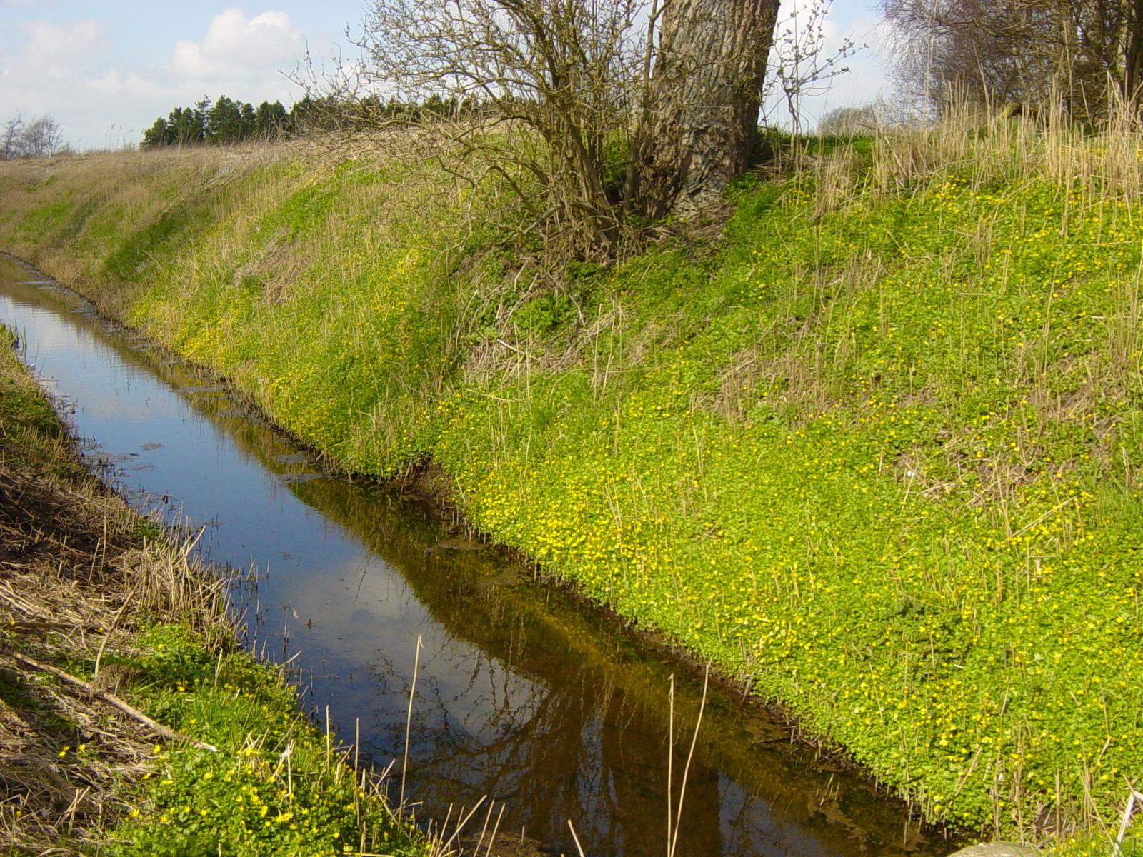 Raabylille Strand, Møn, Denmark - One of the drainage channels Author: Ipigott